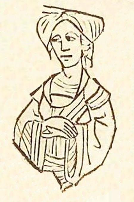 Catherine of Habsburg (1295-1323)